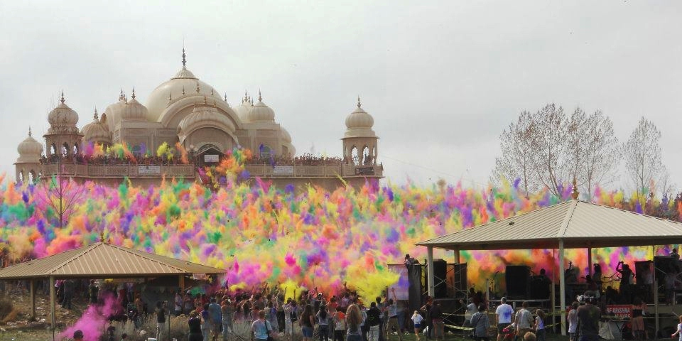 View of crowd throwing colors in front of temple during spring Holi Festival of Colors.